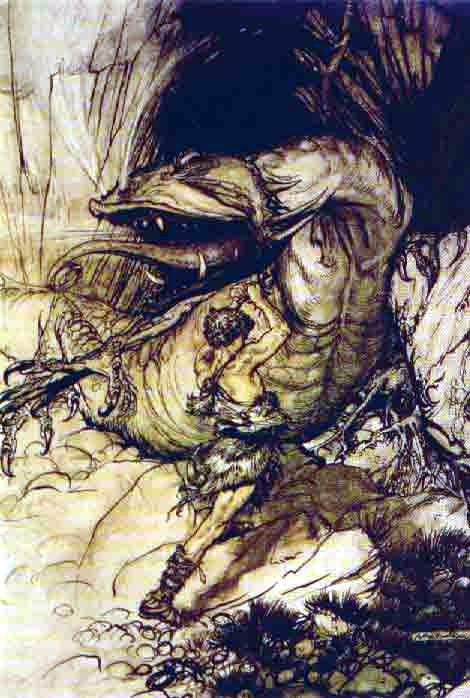 Sigurd kills Fafnir by Arthur Rackham: Originally the image was published in the following book: Wagner, Richard (translated by Margaret Amour) (1911). Siegfried and the Twilight of the Gods. London:William Heinemann, New York: Doubleday, Page.